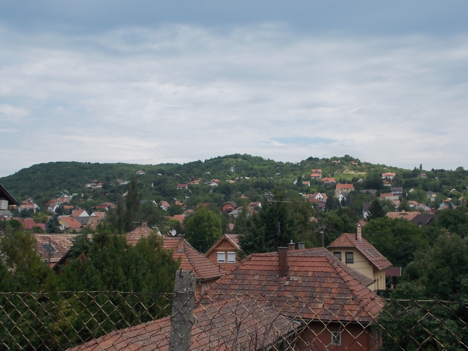 View to Messelia neighborhood. - Orgona Street, Pomáz, Pest County, Hungary.